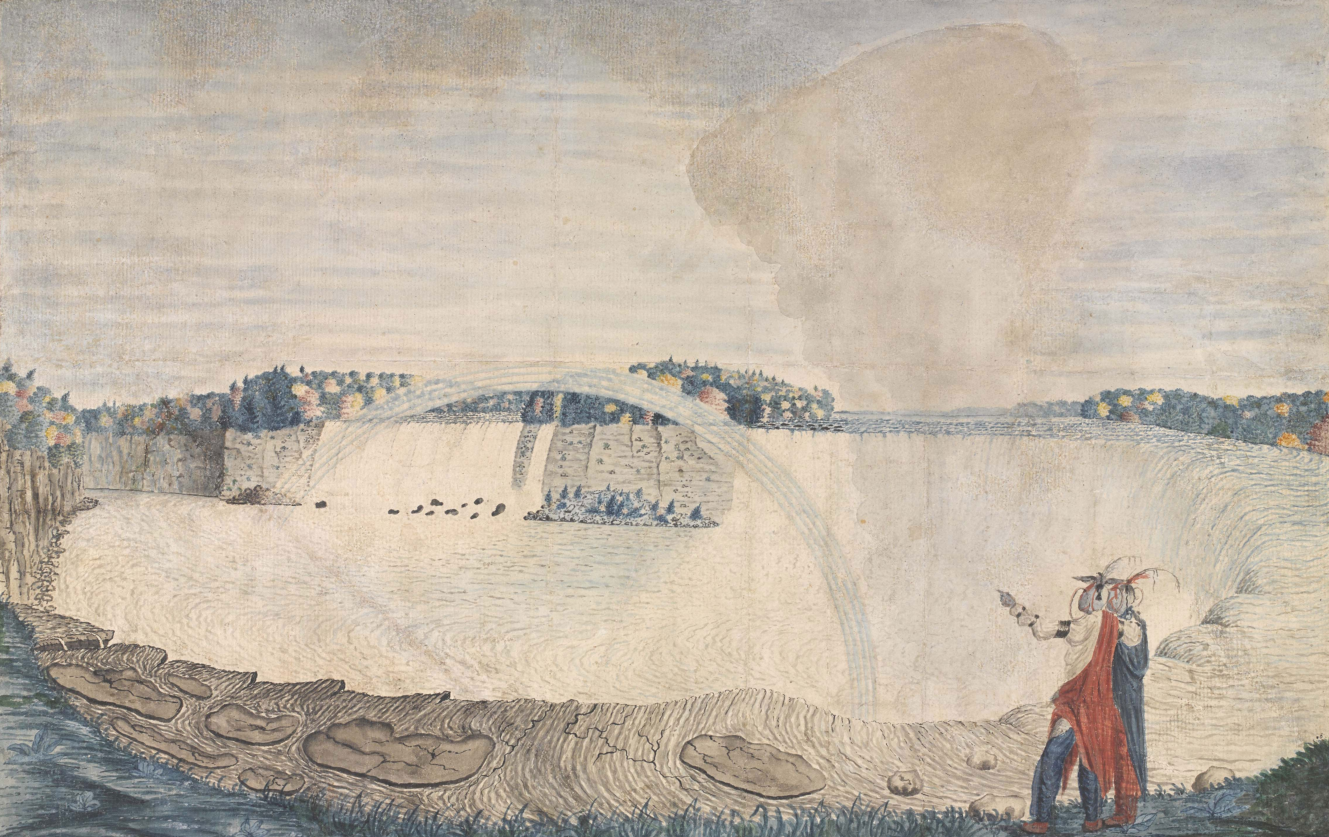 An East View of the Great Cataract of Niagara / Done on the Spot by Thomas Davies Capt Royal Artillery. / The Perpendicular height of the Fall 162 feet Breadth about a Mile & Quarter / The Variety of Colours in the Woods shews the true Nature of the Country